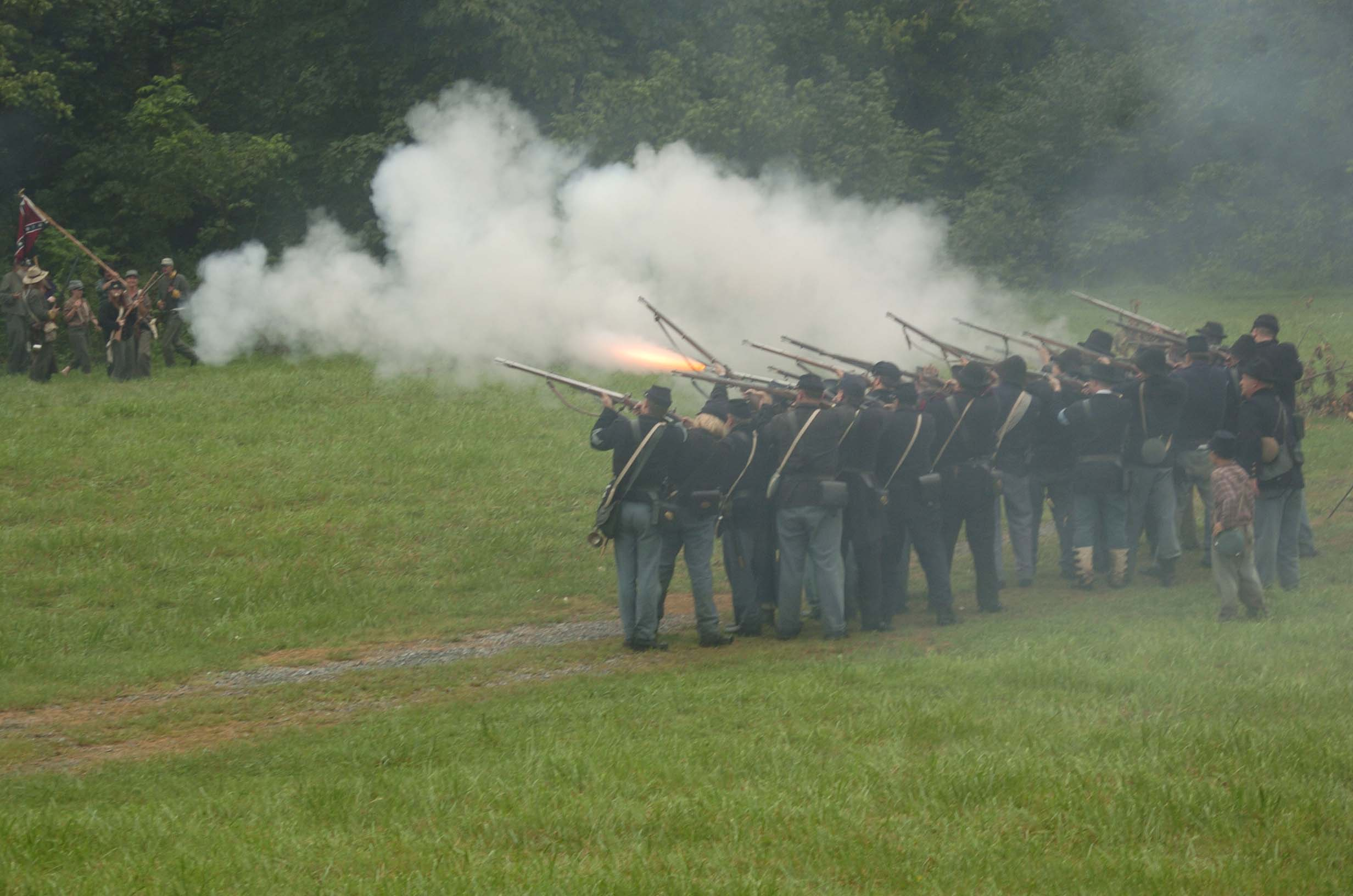 Union re-enactors recreate the Civil War Battle of Saltville in Saltville, Va.